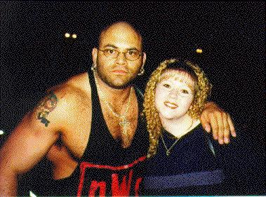 the wrestler k-dawg with a fan